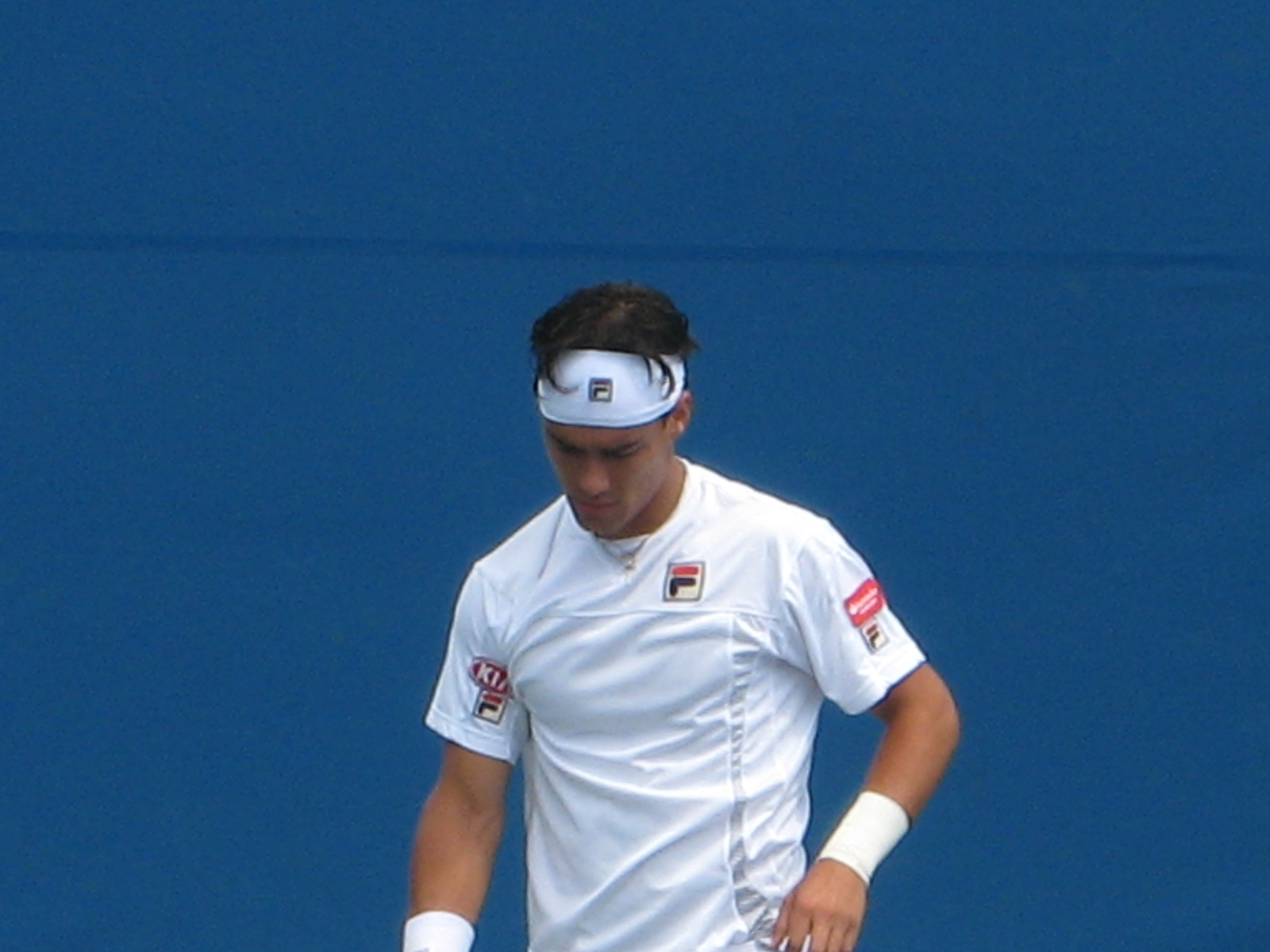 Fabio Fognini playing at the 2008 Pilot Pen Tennis tournament.